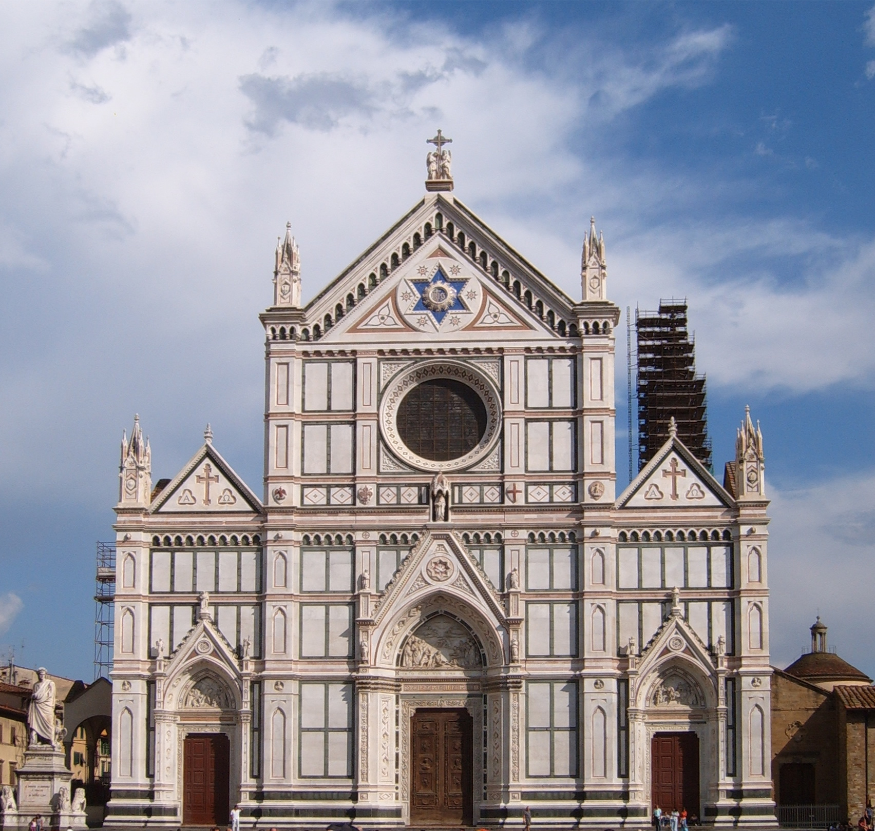 Santa Croce church, Florence (Italy)